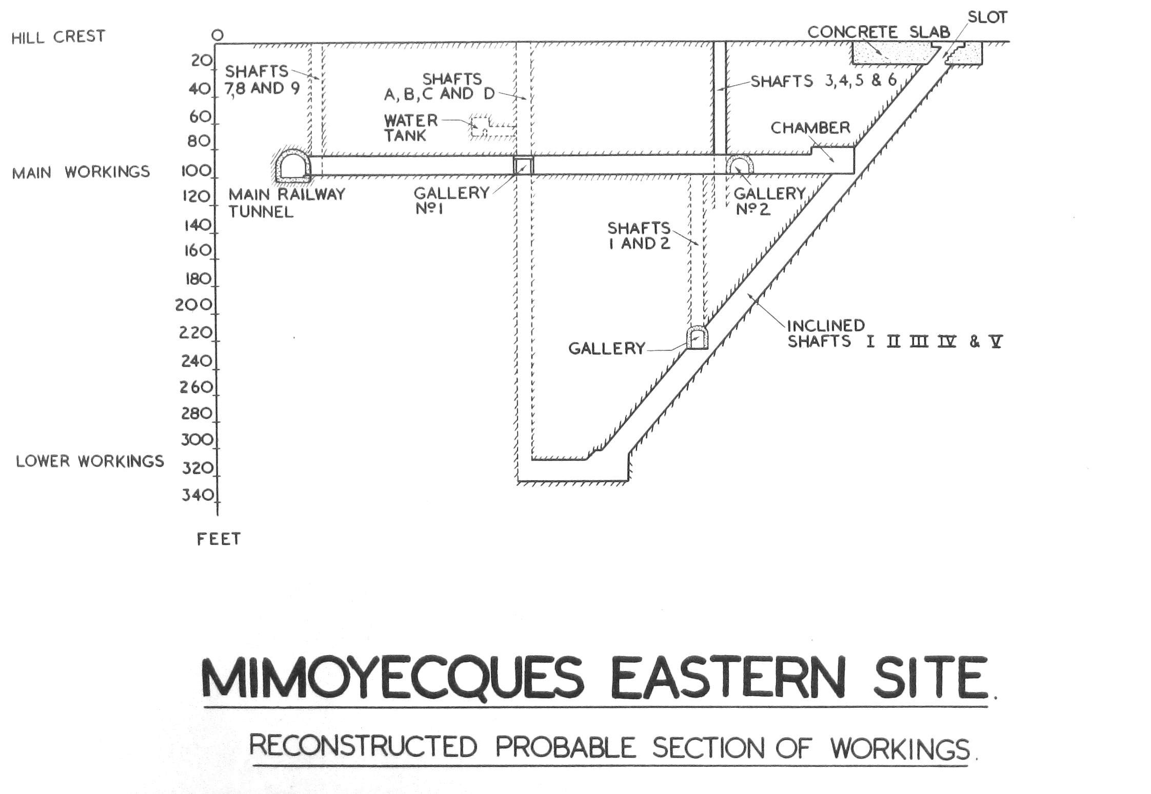 Reconstructed probable section of workings. [Original caption]